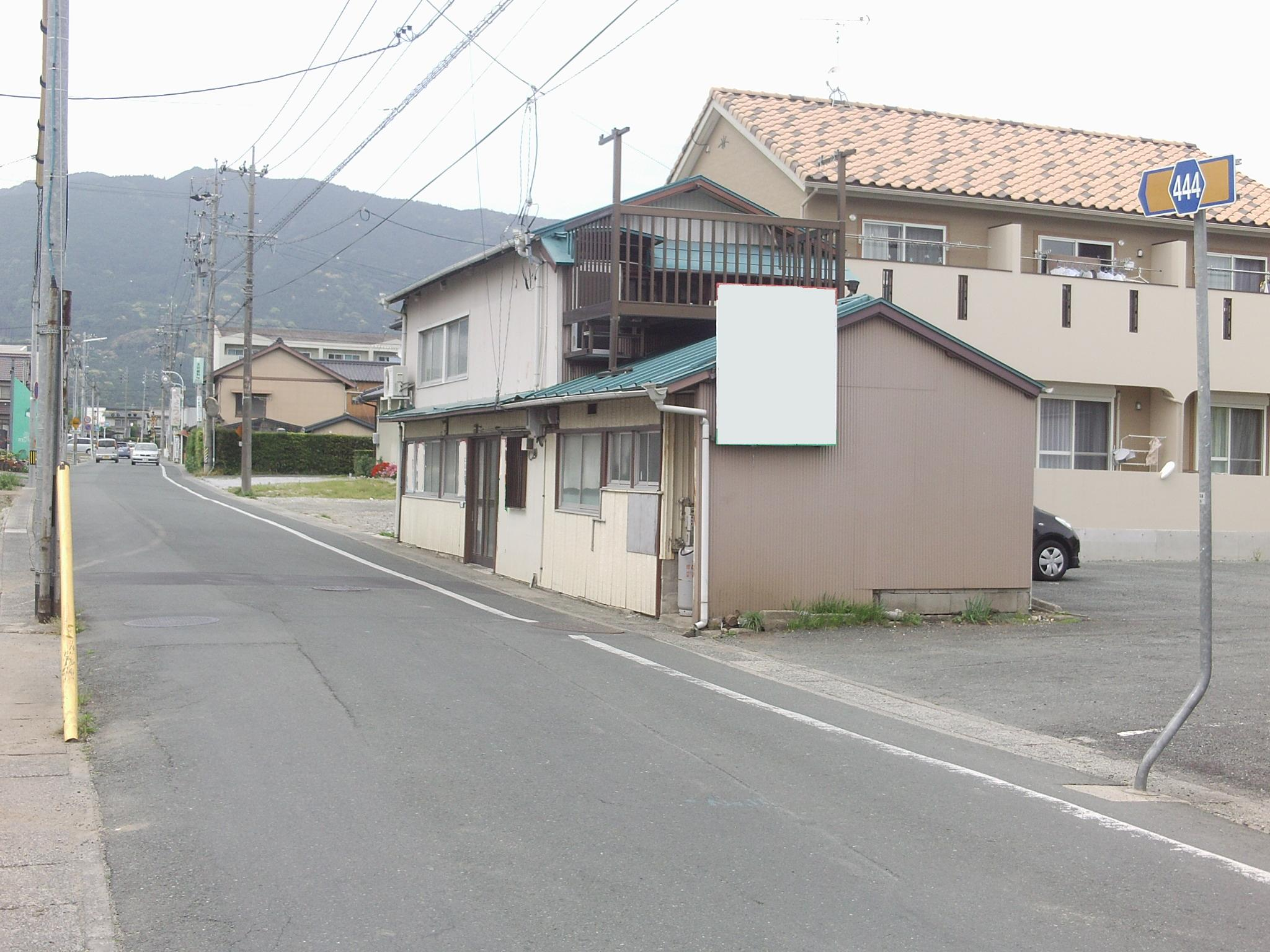 Aichi prefectural road No.444 in Yashiki, Shinshiro, Aichi.